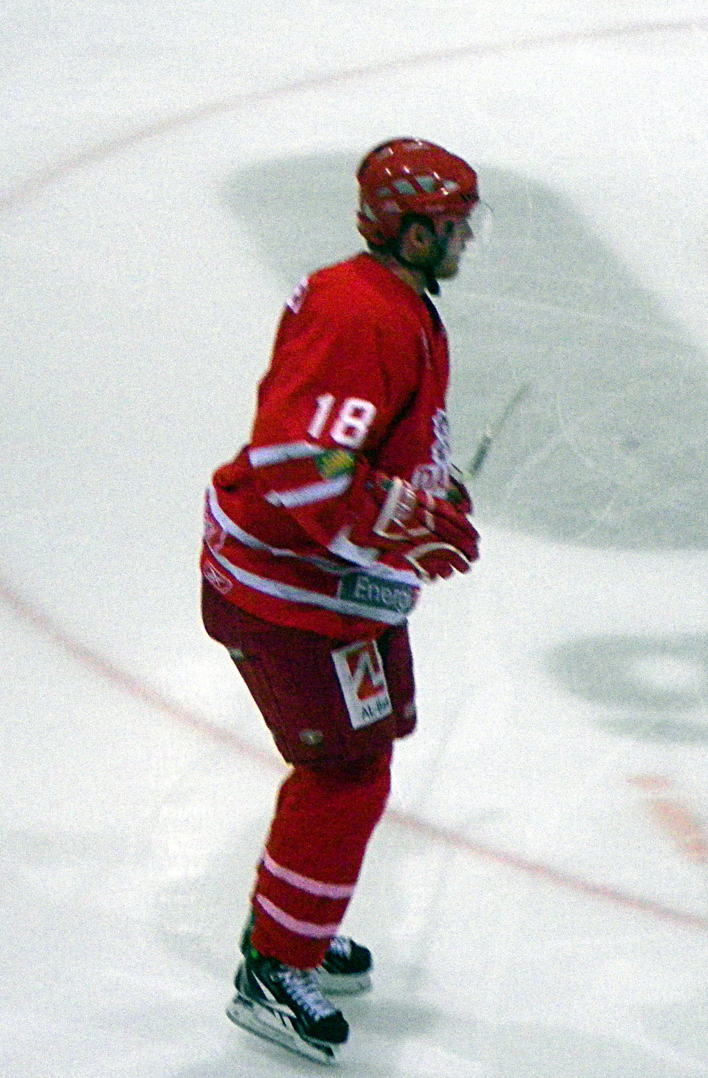 Mads Christensen, danish ice hockey player with team Denmark. Friendly against team France.